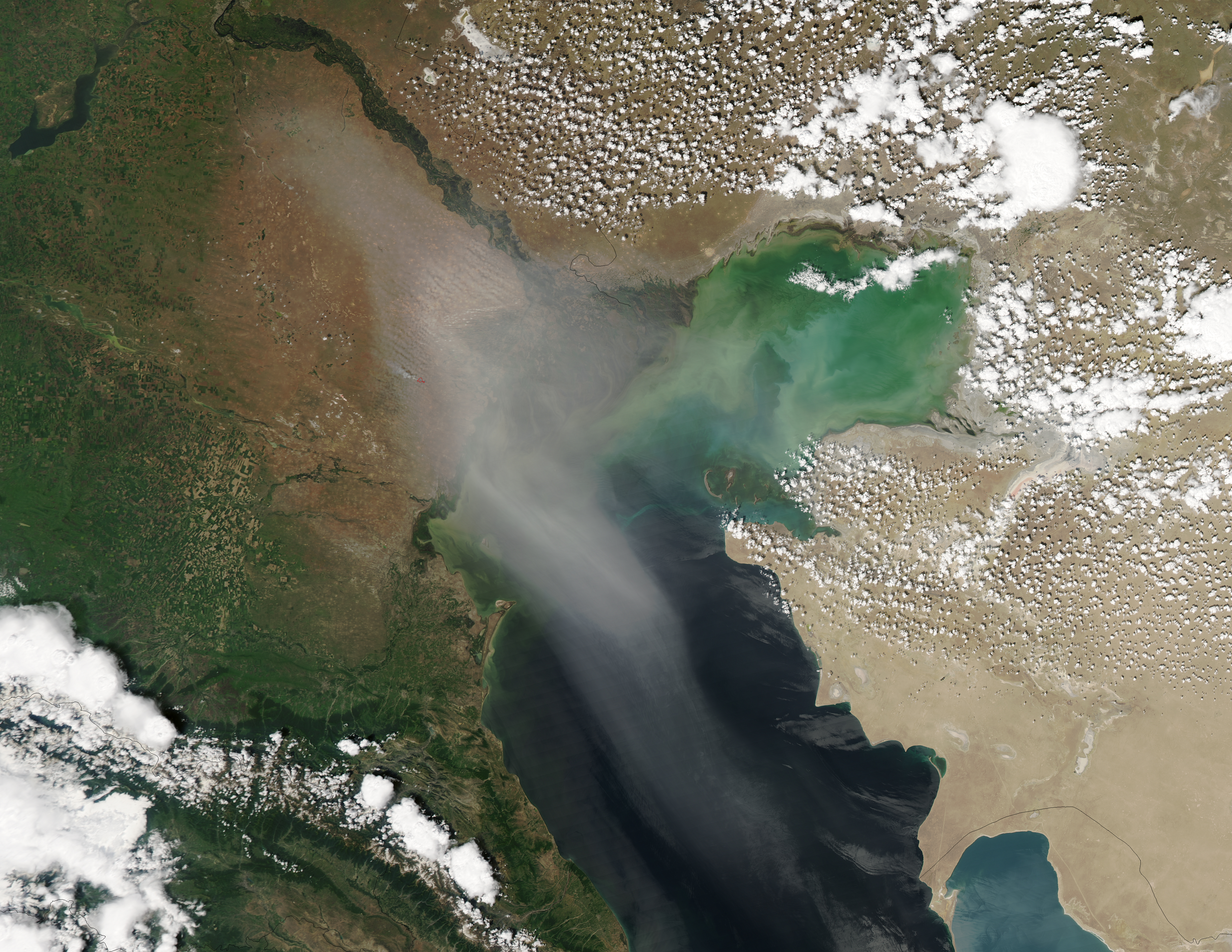 Dust Over the Caspian Sea